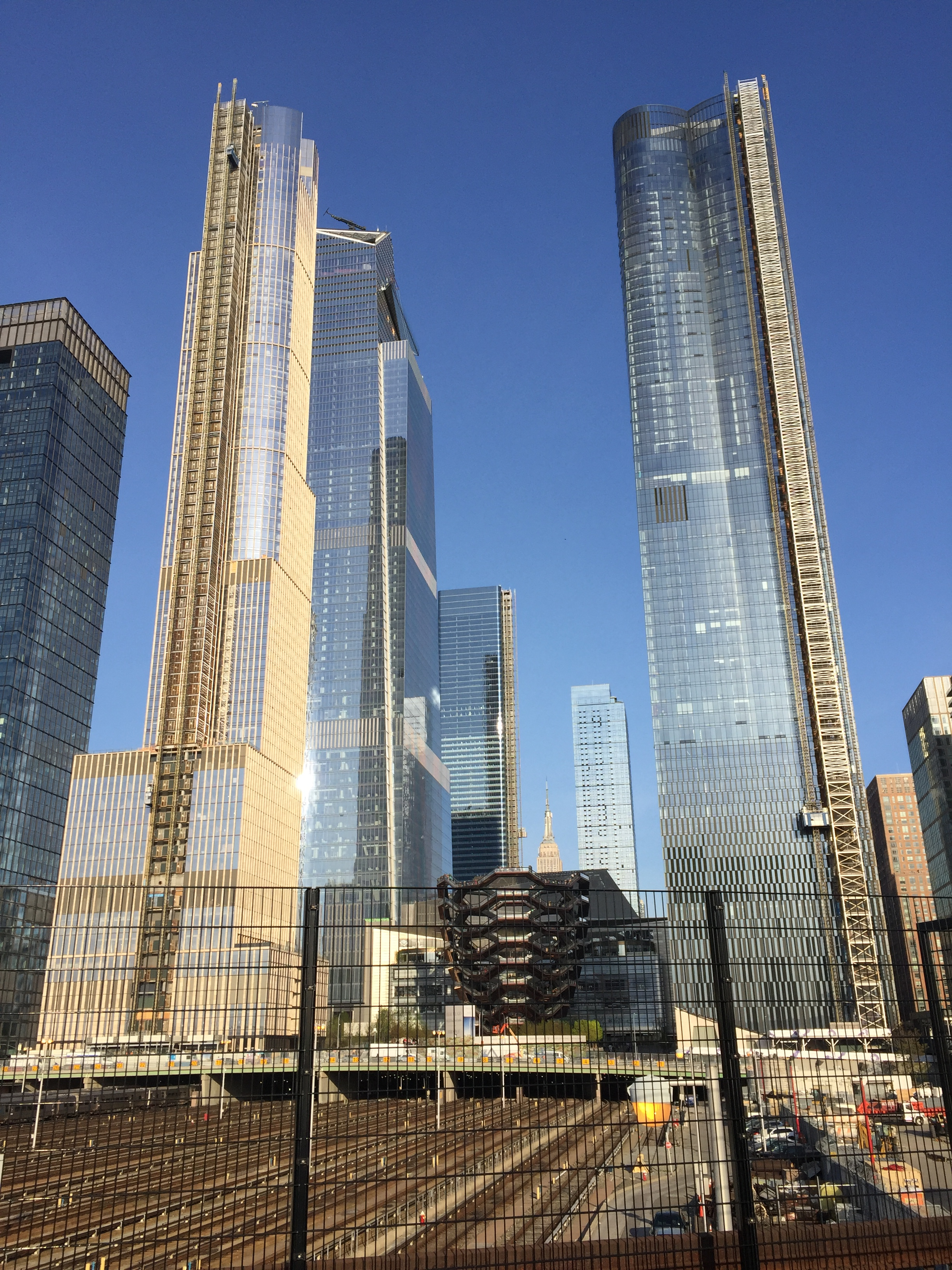 Hudson Yards and West Side Yard in 2019